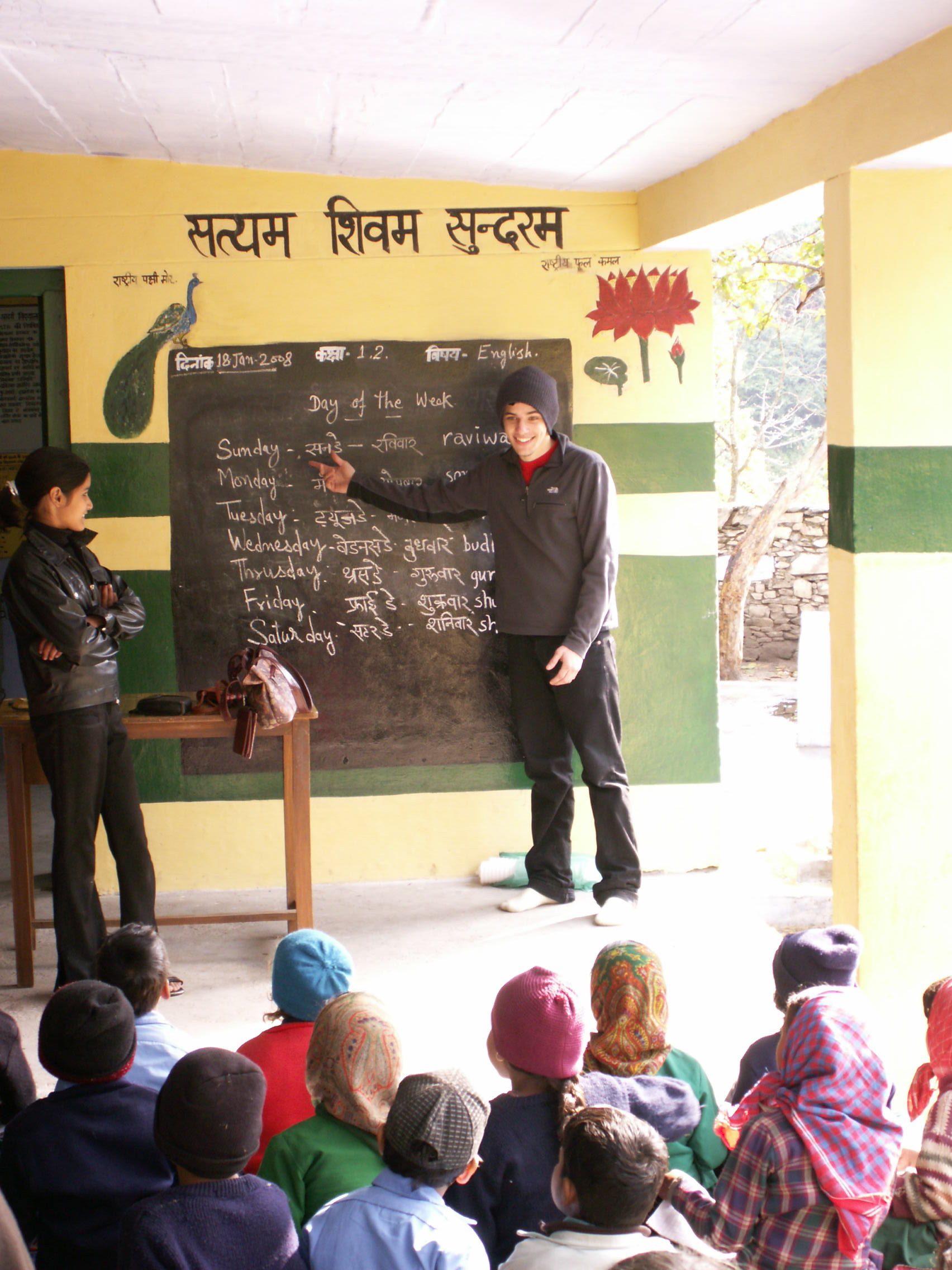 An Explorations student teaches a class at a small school in Northern India.